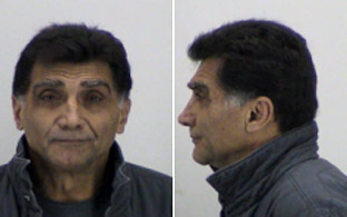 FBI mugshot of Cosa Nostra criminal